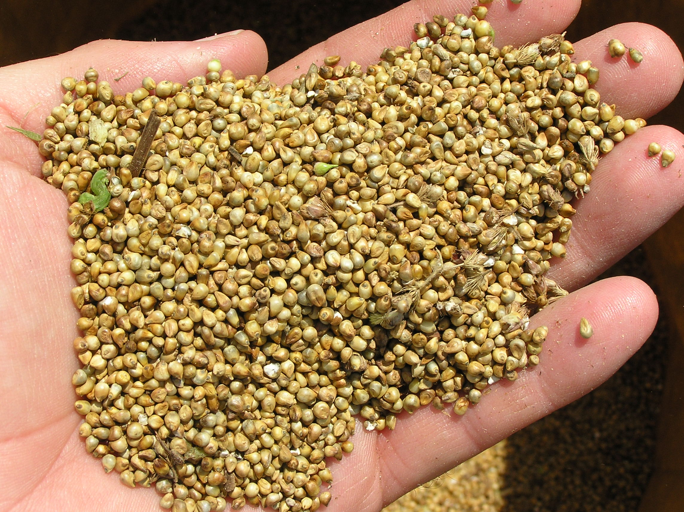 Pearl millet that was harvested by combine, before cleaning for food use. Image taken by J. Wilson, USDA-ARS at Tifton GA on 8-15-07.